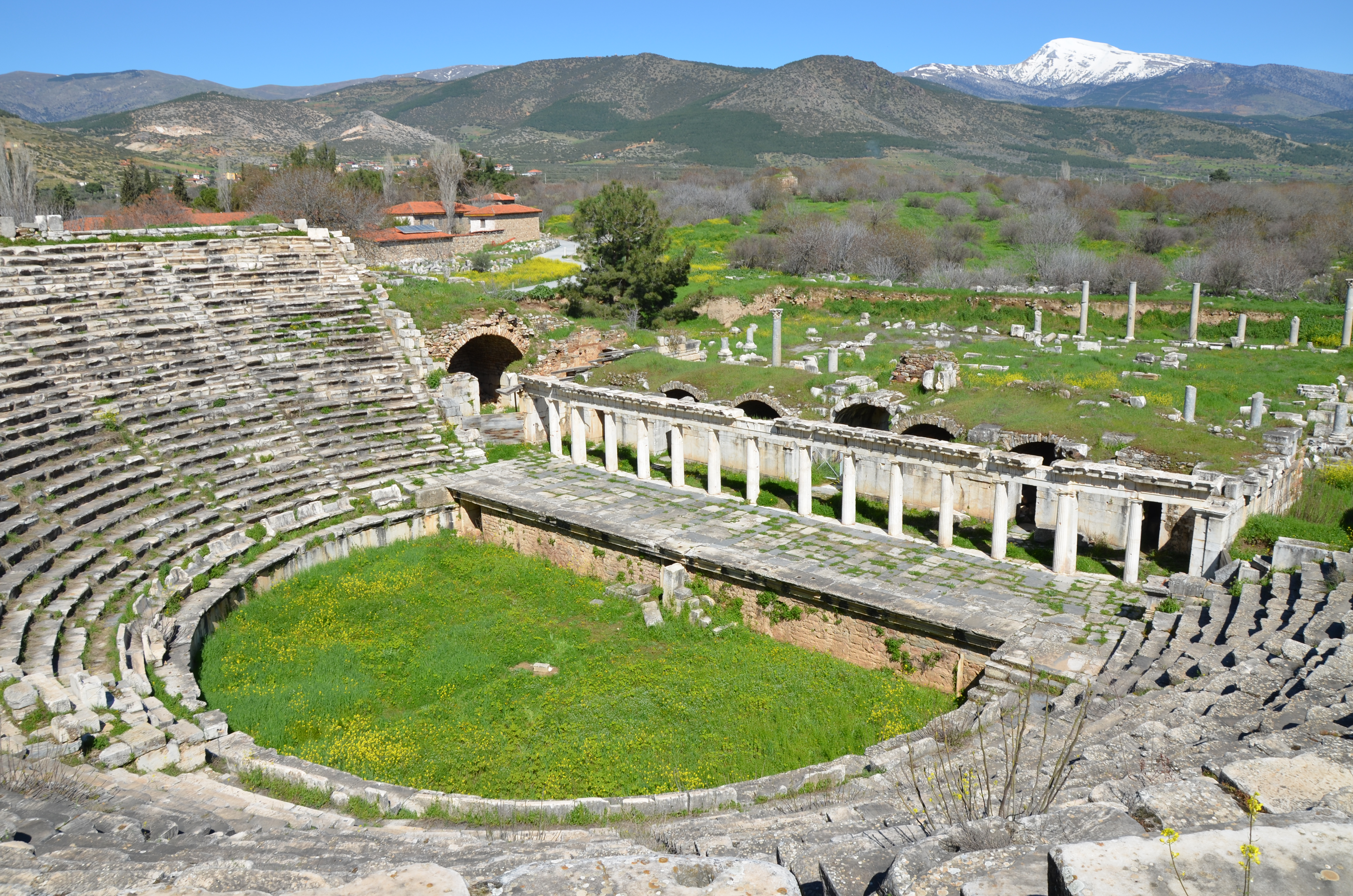 According to its inscription it was dedicated to Aphrodite and the people of the city by Gaius Julius Zoilus, a former slave of Octavian. The seating capacity was 8,000. The cavea is preserved in a good condition: according to the standards of the Hellenistic theatres in Asia Minor, it is bigger than a semi-circle. In the following century, the monumental skene was added, which comprised six vaulted halls used as logeia, arranged around a central room, which led behind the proscenium. The facade of the skene (scaenae frons) was decorated with niches with wonderful sculptures, such as the statue of Domitian, the personification of Demos, two Muses with Apollo or Dionysus, the statue of an athlete, a replica of a statue by Polyclitus and figures of Nikes. During the 2nd century AD, the conversions necessary for the new popular spectacles of animal fights and duels were carried out: the passageways were closed, the orchestra was lowered and the parapets in front of the seats were reinforced, so that the gladiators and the animals could fight without risking the lives of the spectators.